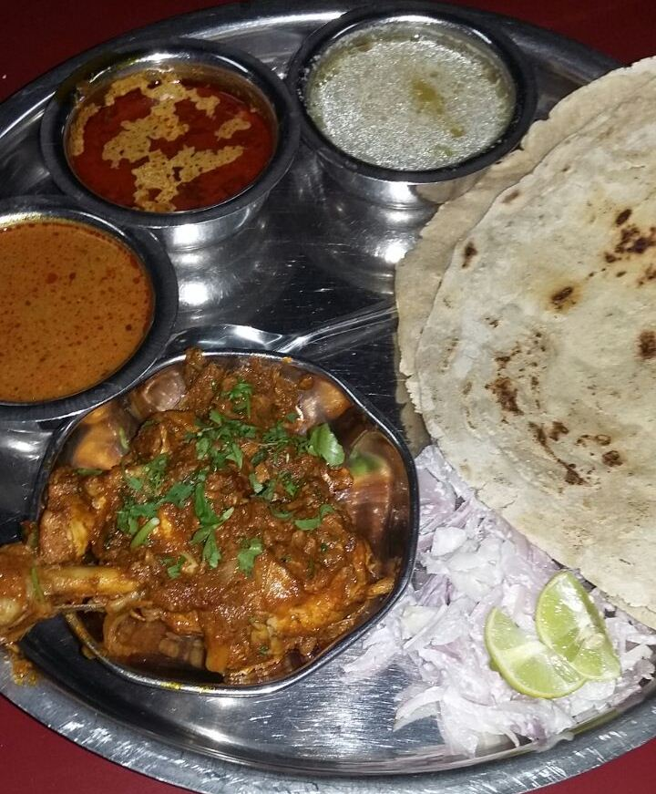 this is an Maharashtra special Chicken Bhakari Dish